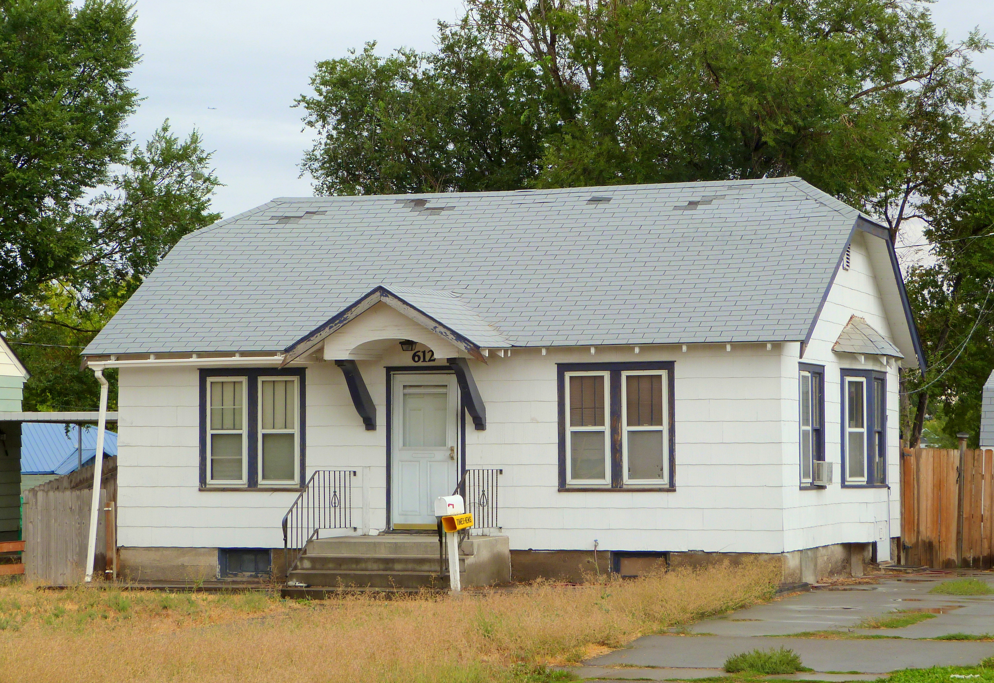 The historic house (built ca. 1920) at 612 4th Avenue North in Twin Falls, Idaho, United States, is listed as a contributing resource in the Twin Falls Original Townsite Residential Historic District. The historic district is listed on the U.S. National Register of Historic Places.